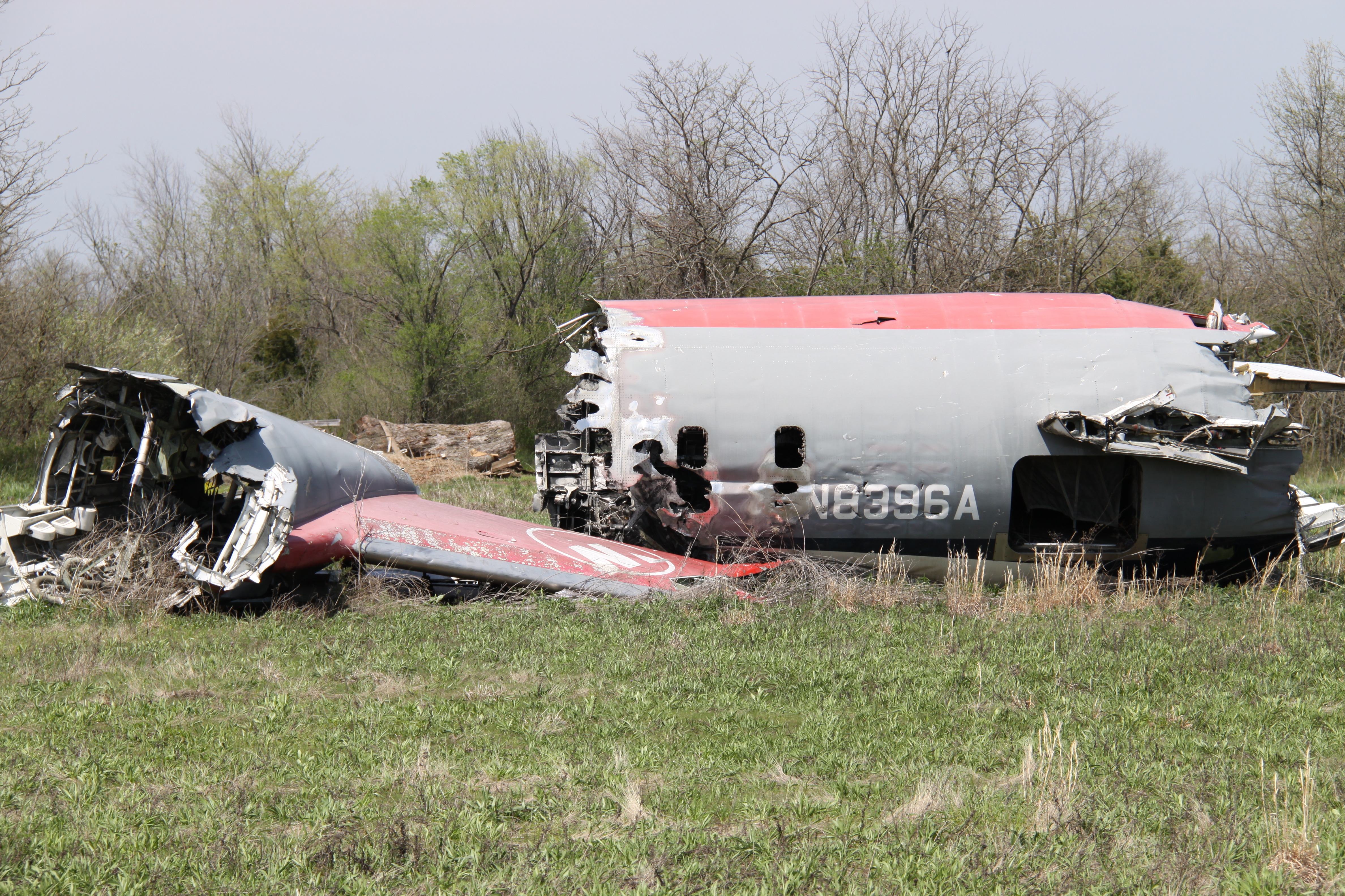 At Rantoul, KS